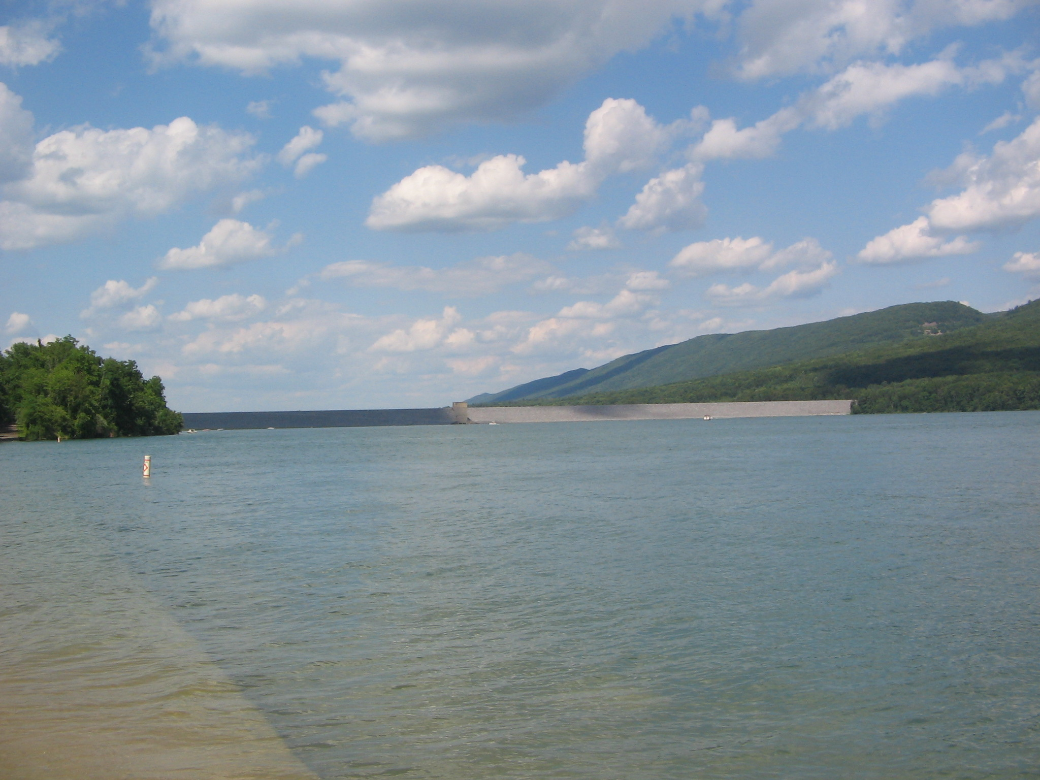 Foster Joesph Sayers Dam and Lake at Bald Eagle State Park in Liberty Township, Centre County, Pennsylvania, USA. Bald Eagle Mountain in the background.